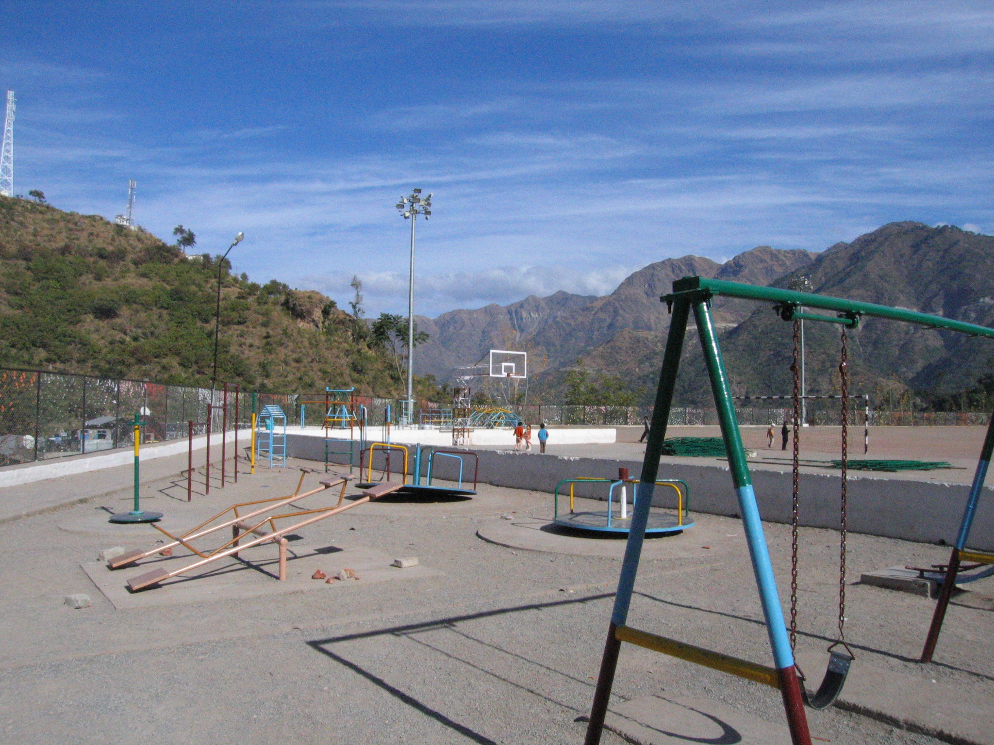 Childrens Play Area